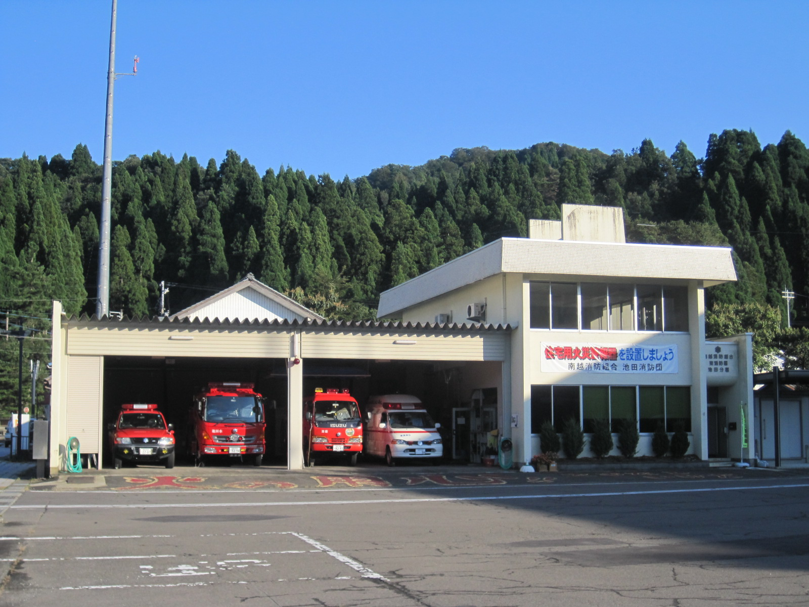 Ikeda Fire Station (Ikeda town, Fukui prefecture)